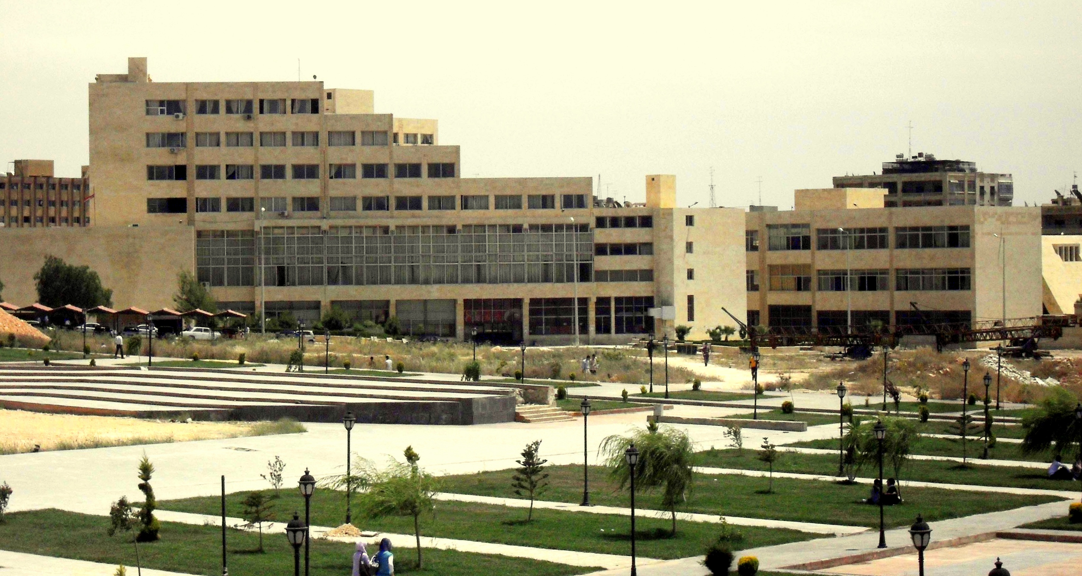 Aleppo University, Faculty of Arts and Humanities